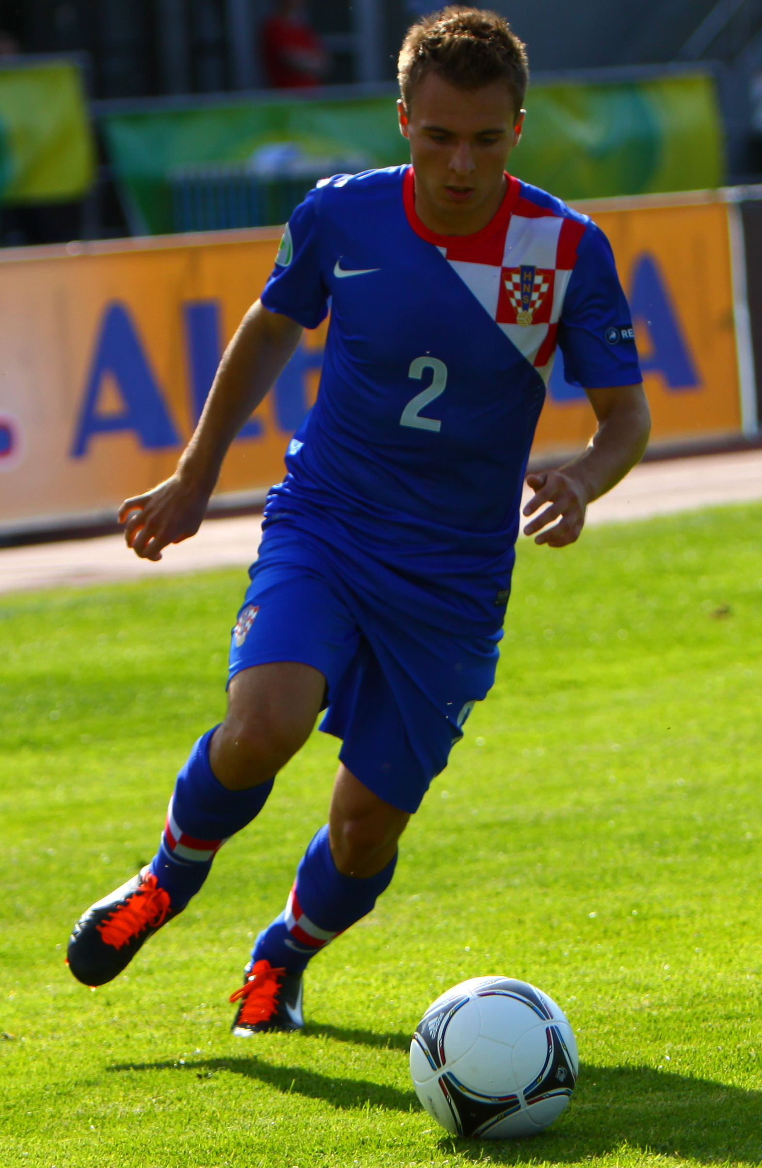 Toni Gorupec playing for Croatia U-19